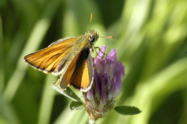 Picture taken in Commanster, Belgian High Ardennes . Species: Thymelicus sylvestris